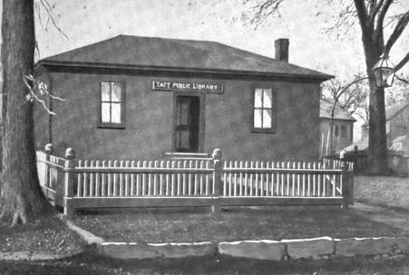 Public library, Massachusetts